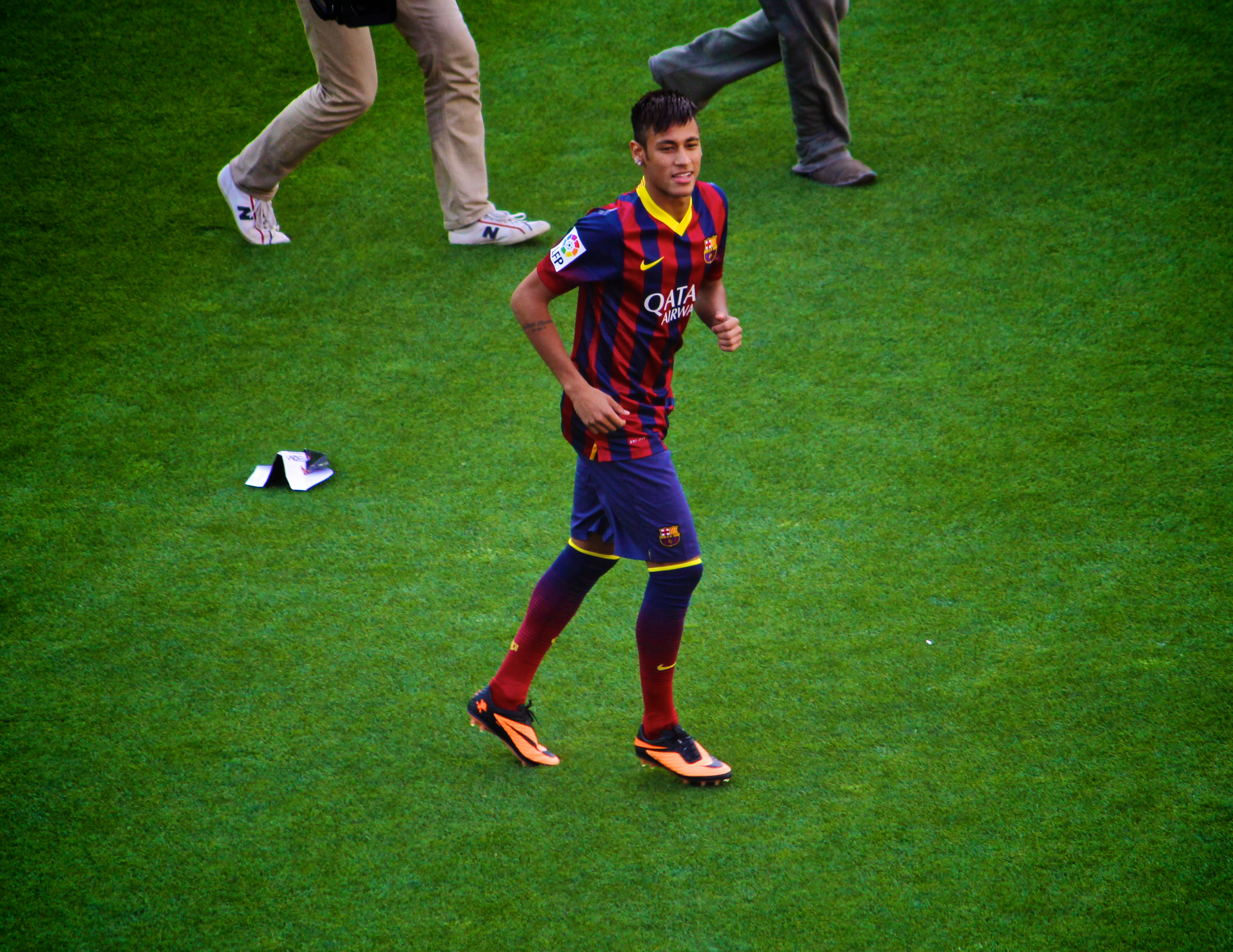 Neymar Jr. during his presentation as a Barcelona player.